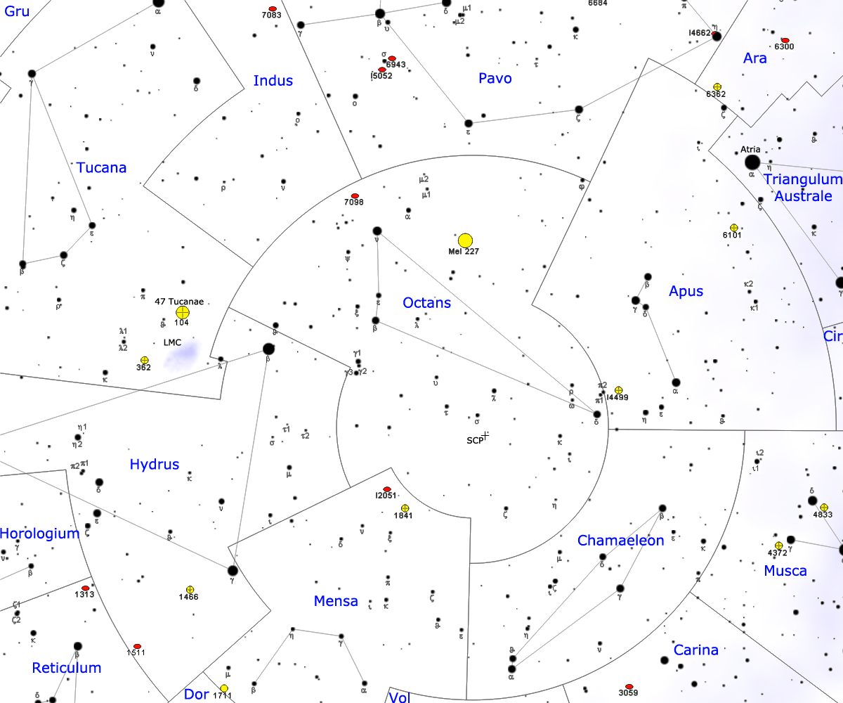 Map of Octans